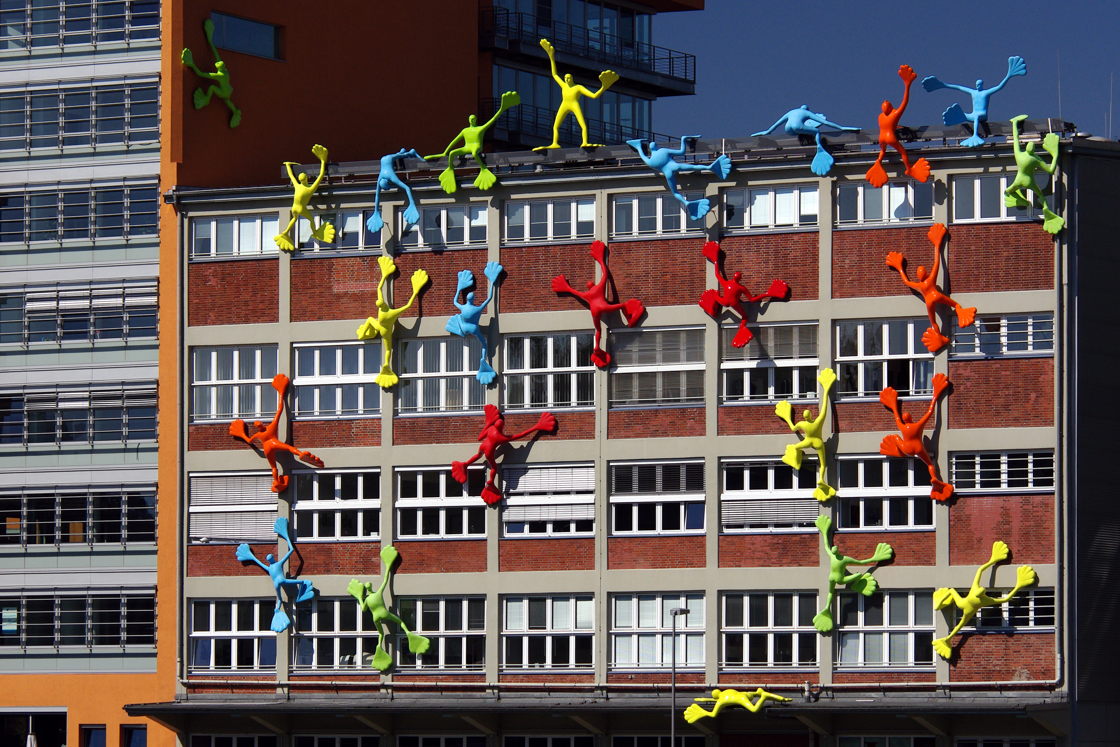 The Roggendorf House in the Medienhafen of Düsseldorf/Germany